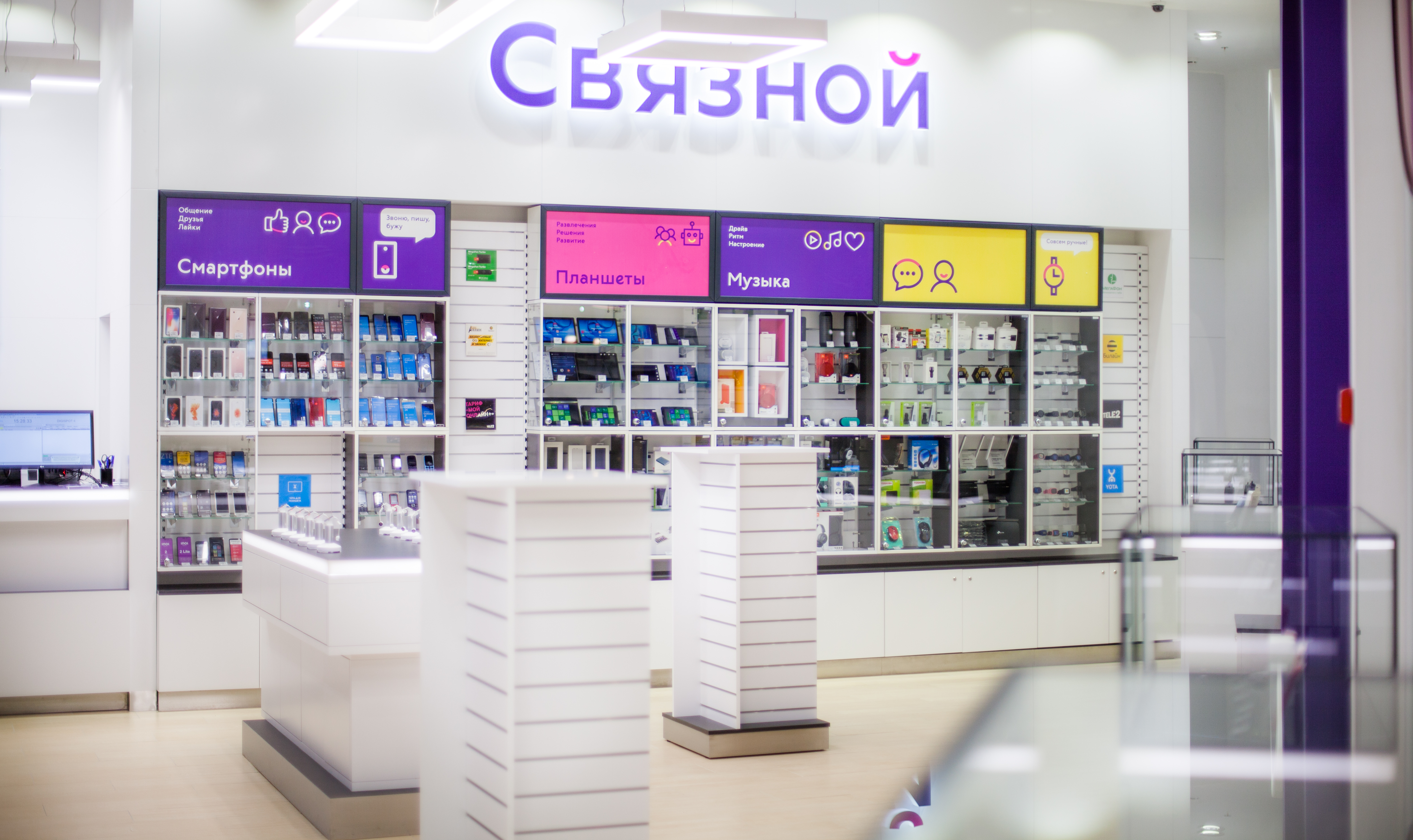 Магазин Flex компании Связной